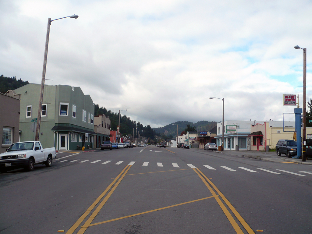 Looking north on Wildwood Drive just north of the Eel River Bridge in Rio Dell, California. This section is the historical main street of Rio Dell.